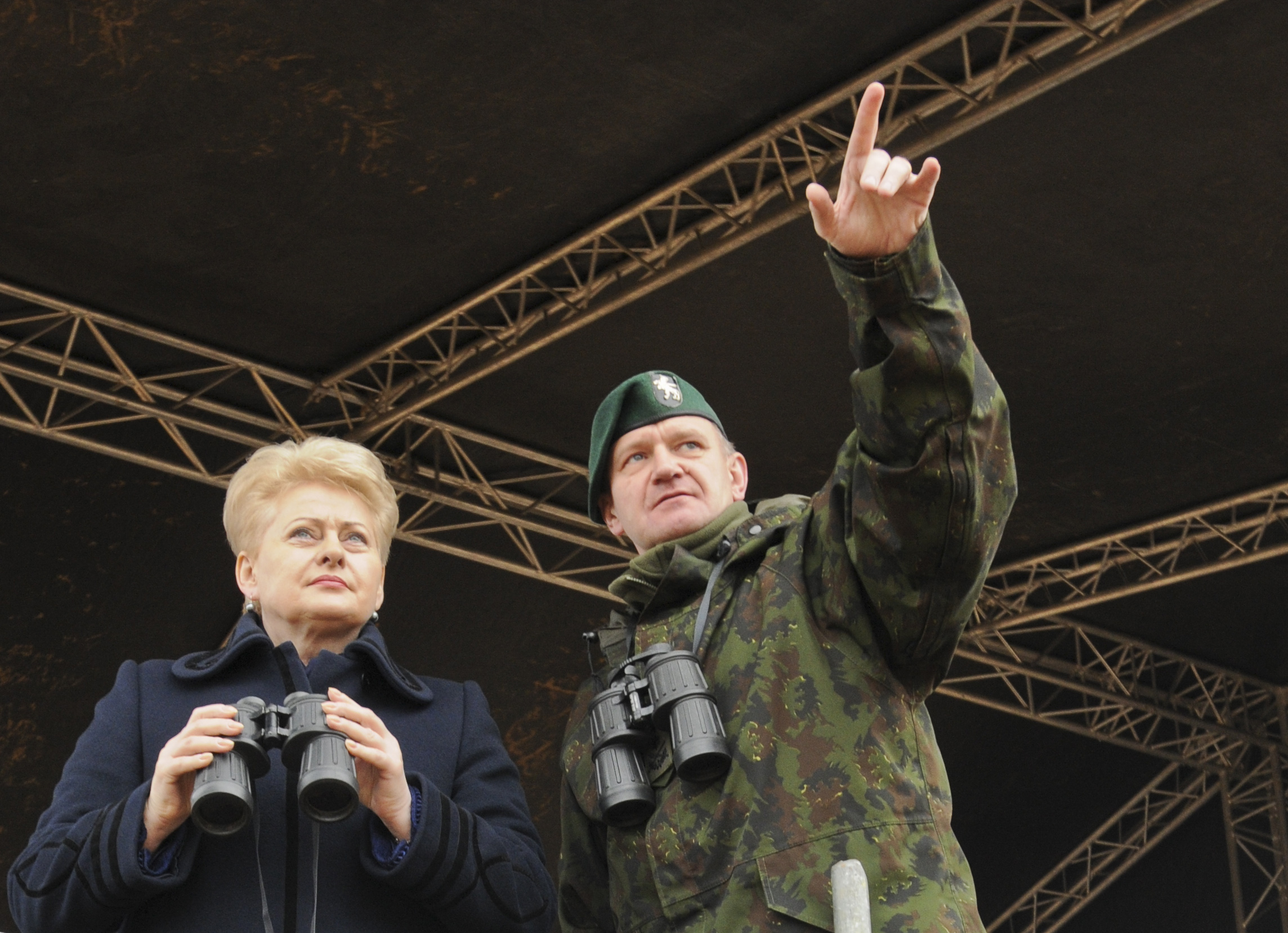 President of the Republic of Lithuania Dalia Grybauskaite (left), and Maj. Gen. Almantas Leika, commander of Lithuanian Land Forces, observe a demonstration by NATO troops at the closing ceremony for Iron Sword 2014 in Pabrade, Lithuania, Nov. 13. More than 2,500 troops from nine NATO countries, including U.S. Army Soldiers of the 1st Brigade Combat Team, 1st Cavalry Division, and 1st Squadron, 2nd Cavalry Regiment, participated in the two-week multinational exercise, aimed at enhancing interoperability and demonstrating U.S. commitment to its NATO allies. (U.S. Army photo by Sgt. David Turner)